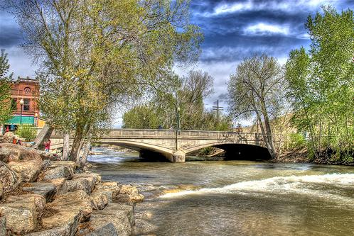 Bridgepixing the F Street Bridge over the Arkansas River in Salida, Colorado. This two span concrete arch bridge, built, 1907-08 is listed on the National Register of Historic Places. Additional Bridge Photos and a Bridge Blog at